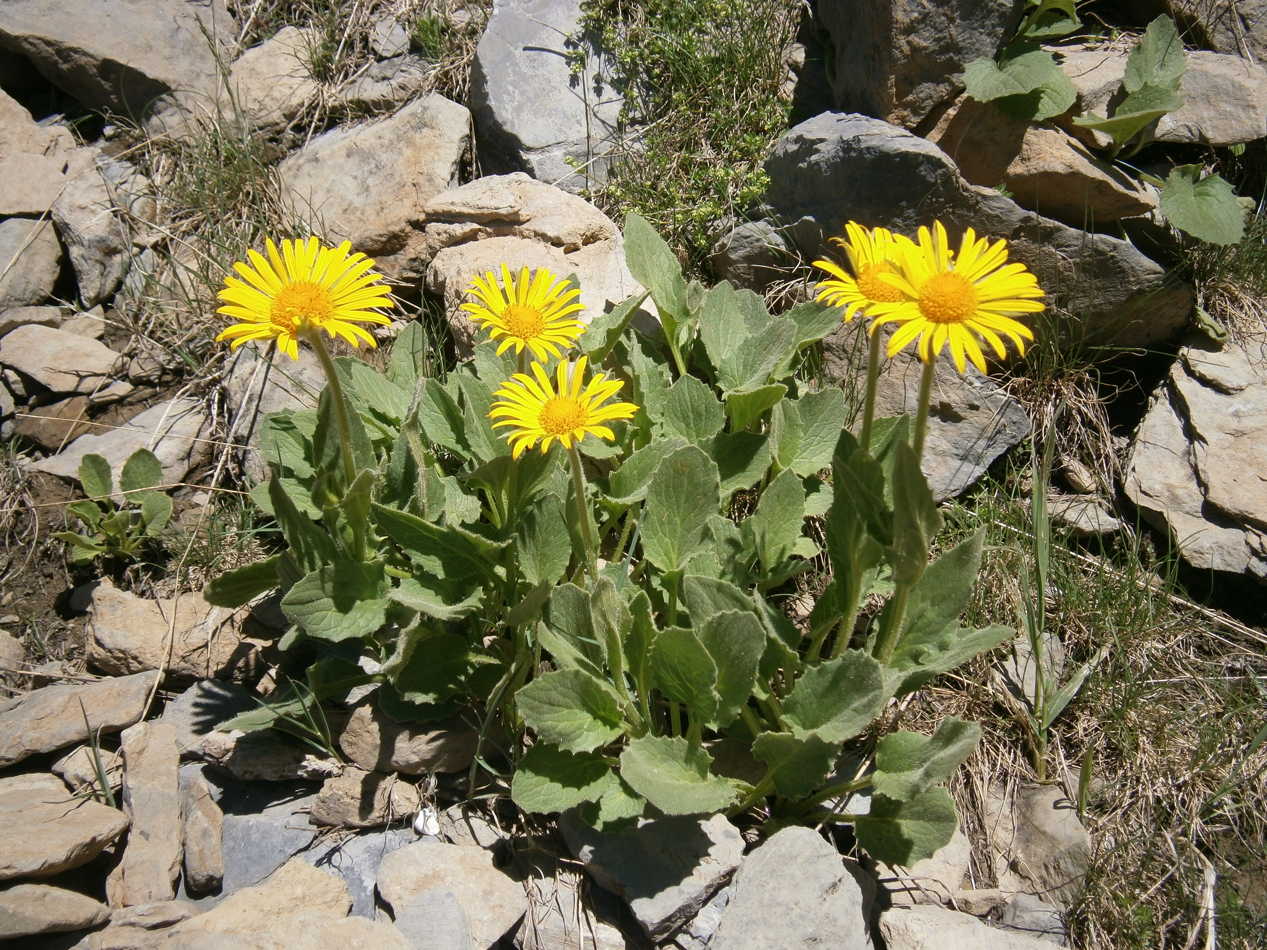 Doronicum clusii